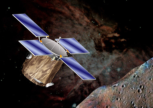 Artist's conception of the NEAR Shoenmaker spacecraft. Originally from the NSSDC website